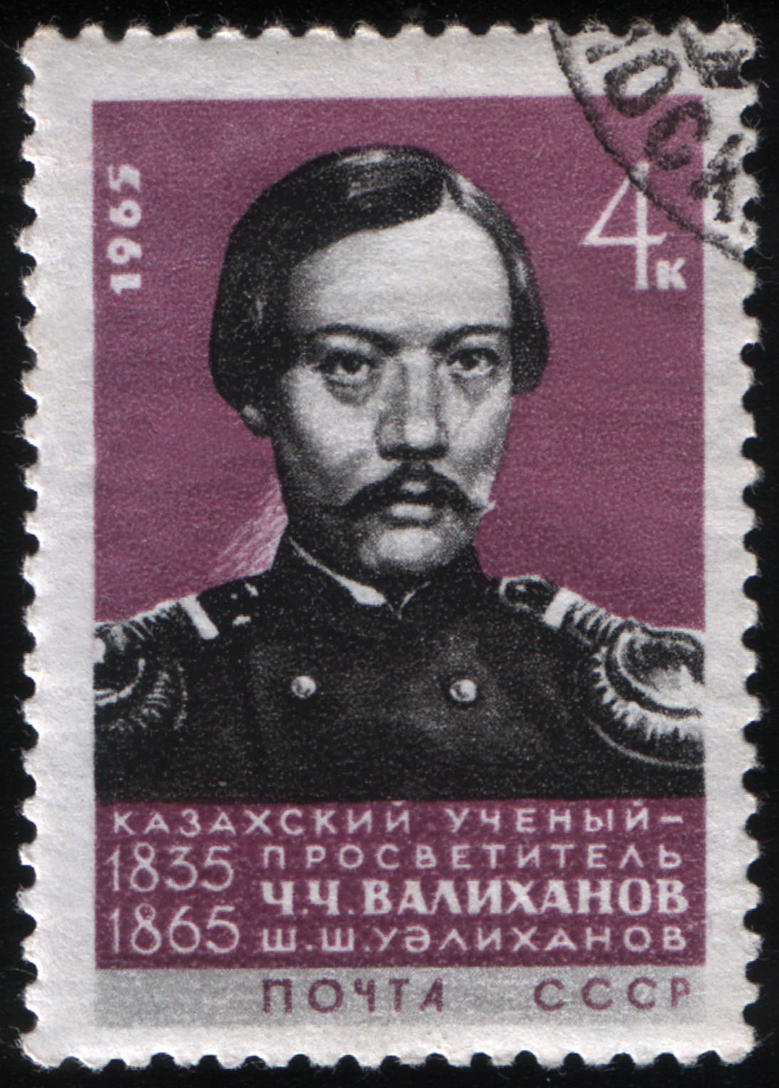 USSR stamp, Shokan Valikhanov (Чокан Чингисович Валиханов), Kazakh scholar, ethnographer and historian (1835-1865), 1965, 4 k.